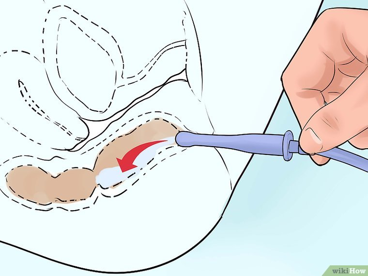 A drawing showing a cross-section of the interior of a rectum with an enema nozzle being inserted, at the moment the nozzle first breeches the anal sphincter.